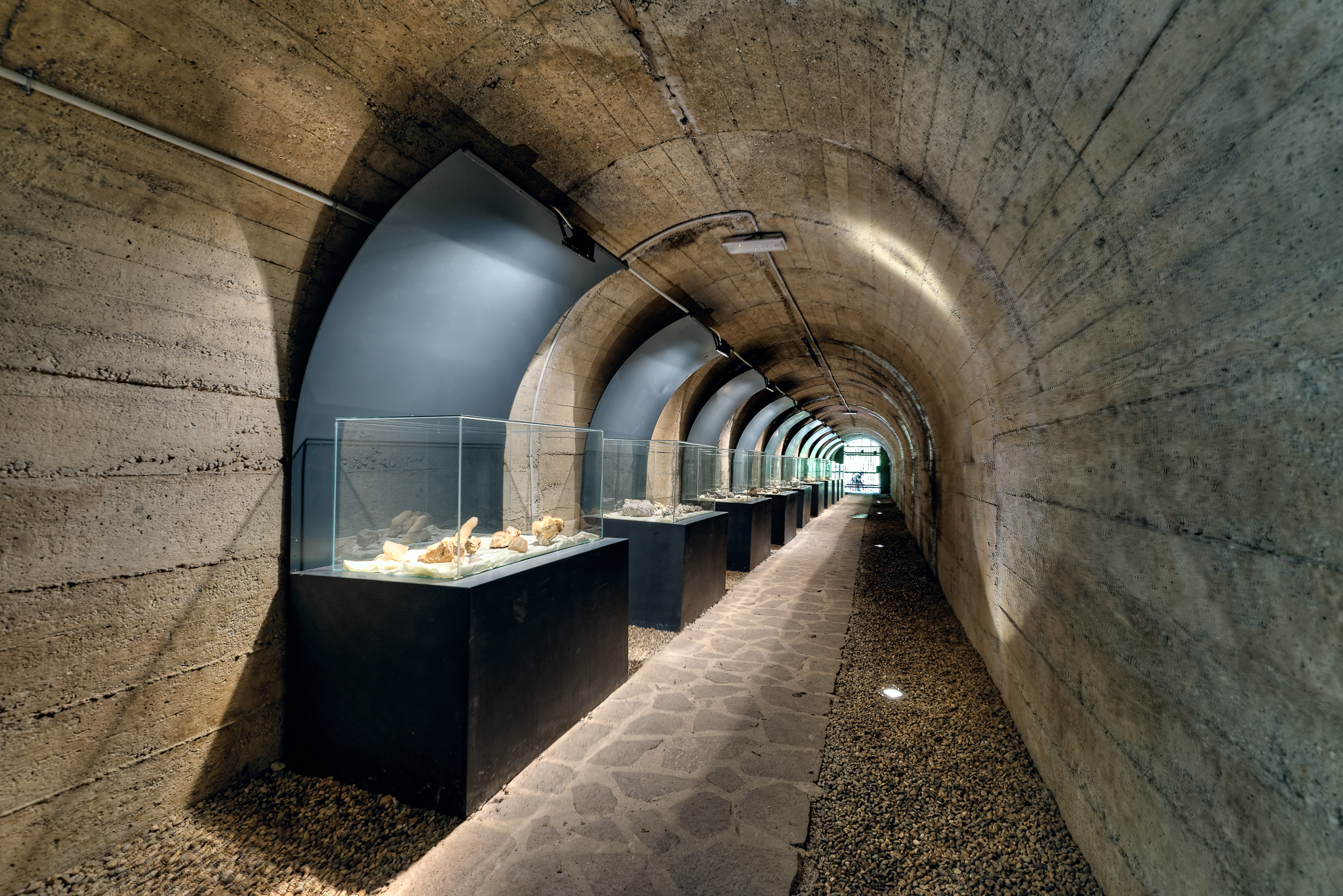 Kranjski rovi